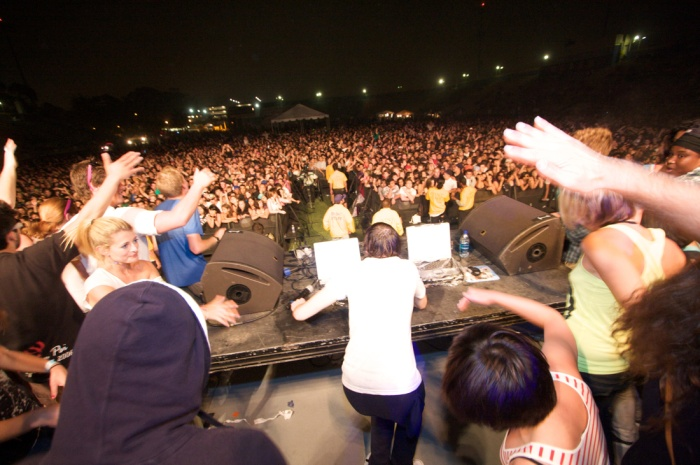 Girl Talk performing at UCSB during Extravaganza